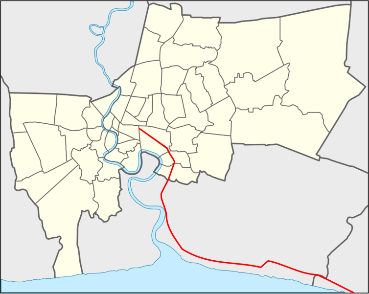 Course of Sukhumvit Road in Bangkok